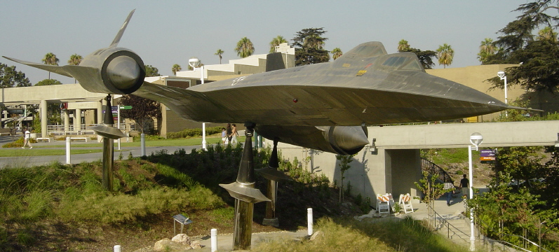 One-of-a-kind A-12 trainer with an extra cockpit for the instructor at the California ScienCenter's Roy A. Anderson Blackbird Exhibit & Garden in Los Angeles. Regular A-12s were one-seater spy planes built for CIA. Compare to the later SR-71 which were two-seater spy planes built for USAF. Compare to the YF-12 interceptor which has a pointy nose cone. All three types of airplanes A-12, SR-71 and YF-12 are designed with different capabilities for different missions and have distinct exterior features though they look very similar. Even press release photos from the government sometimes mixed up the pictures. It is unknown if the mix up was intentional or not because these projects were in secrecy and unclassified pictures were hard to come by. On 26 January 1960, the CIA ordered twelve A-12 aircraft. After SR-71 was chosen to replace the A-12, May 8th, 1968 saw the last operational mission of an A-12, which was over North Korea. After this, all A-12s were sent back to Palmdale to be put into storage for several decades before going to museums around the United States. This particular specimen in LA is the only A-12 trainer ever built. It was put on display in 2003. The plaque at the exhibit said the following: Spy in the sky The A-12 Blackbird flew high and light A-12 Trainer Specs Material: Titanium Length: 31.2 meters (102 feet, 3 inches) Wingspan: 16.9 meters (55 feet, 7 inches) Height: 5.6 meters (18 feet, 6 inches) Takeoff weight: 53,000 kg 117,000 pounds) Landing weight: 23,600 kg (52,000 pounds) Speed: Mach 2.0, twice the speed of sound Altitude: 18,000 meters (60,000 feet) Engines: 2 Pratt & Whitney I-75 engines, each rated at 17,000 pounds of thrust First flight: January 1963 Number of flights: 614 Hours of flight: 1,076 hours flying time